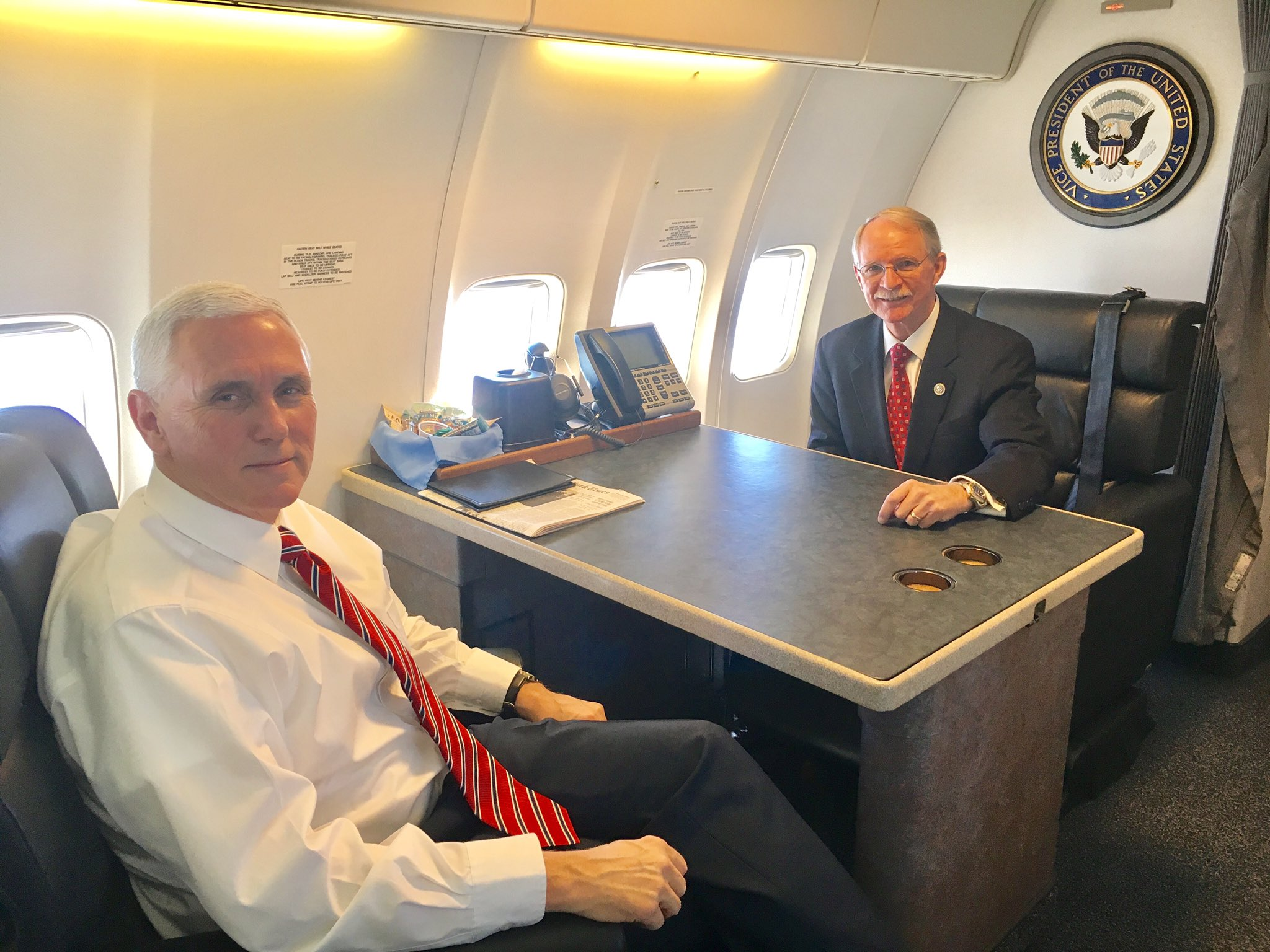 Happy to have @RepRutherfordFL join me in Jacksonville for a conversation w/ small biz about the disastrous effects of Obamacare.